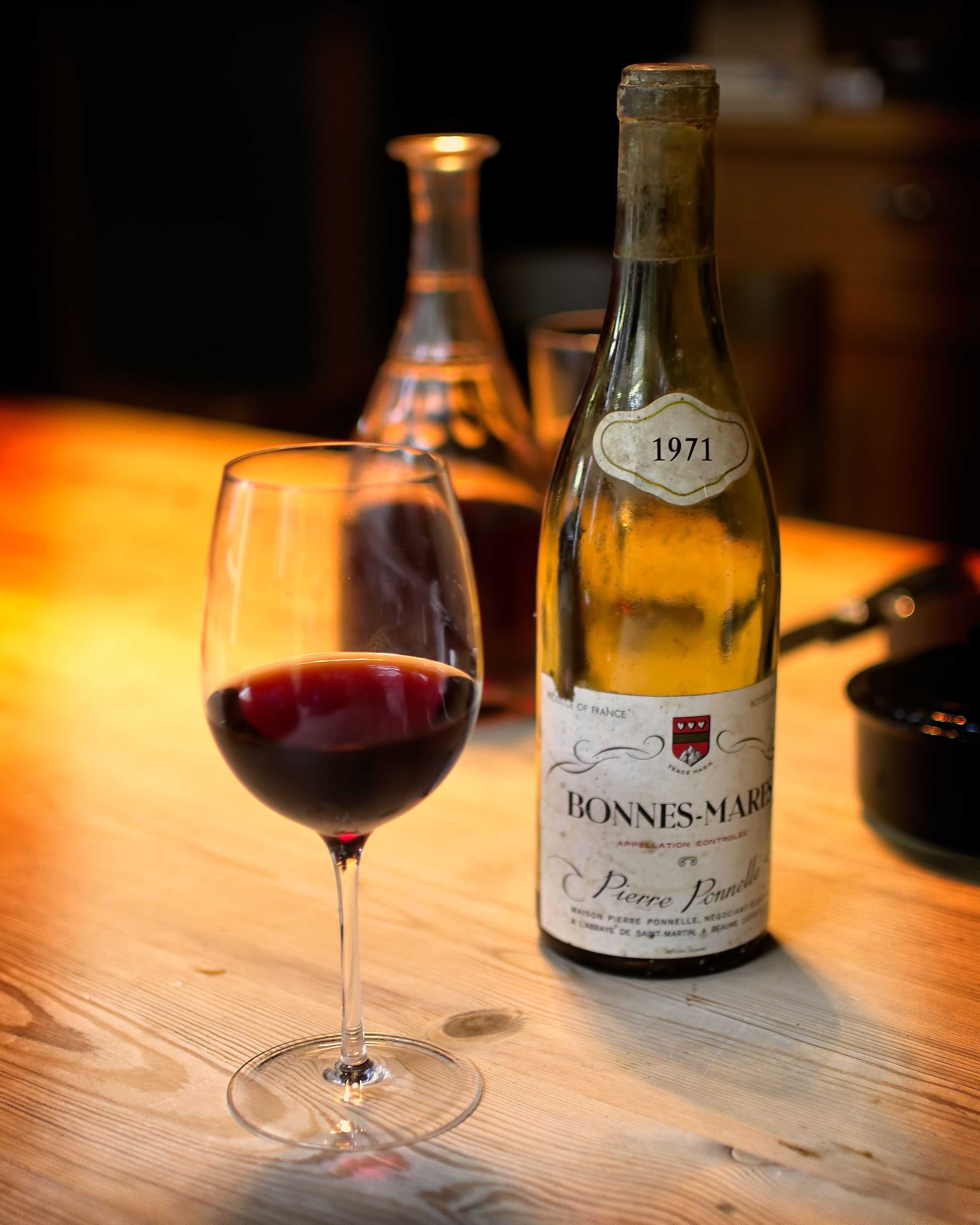 French Burgundy wine made from Pinot noir in the Bonnes Mares AOC